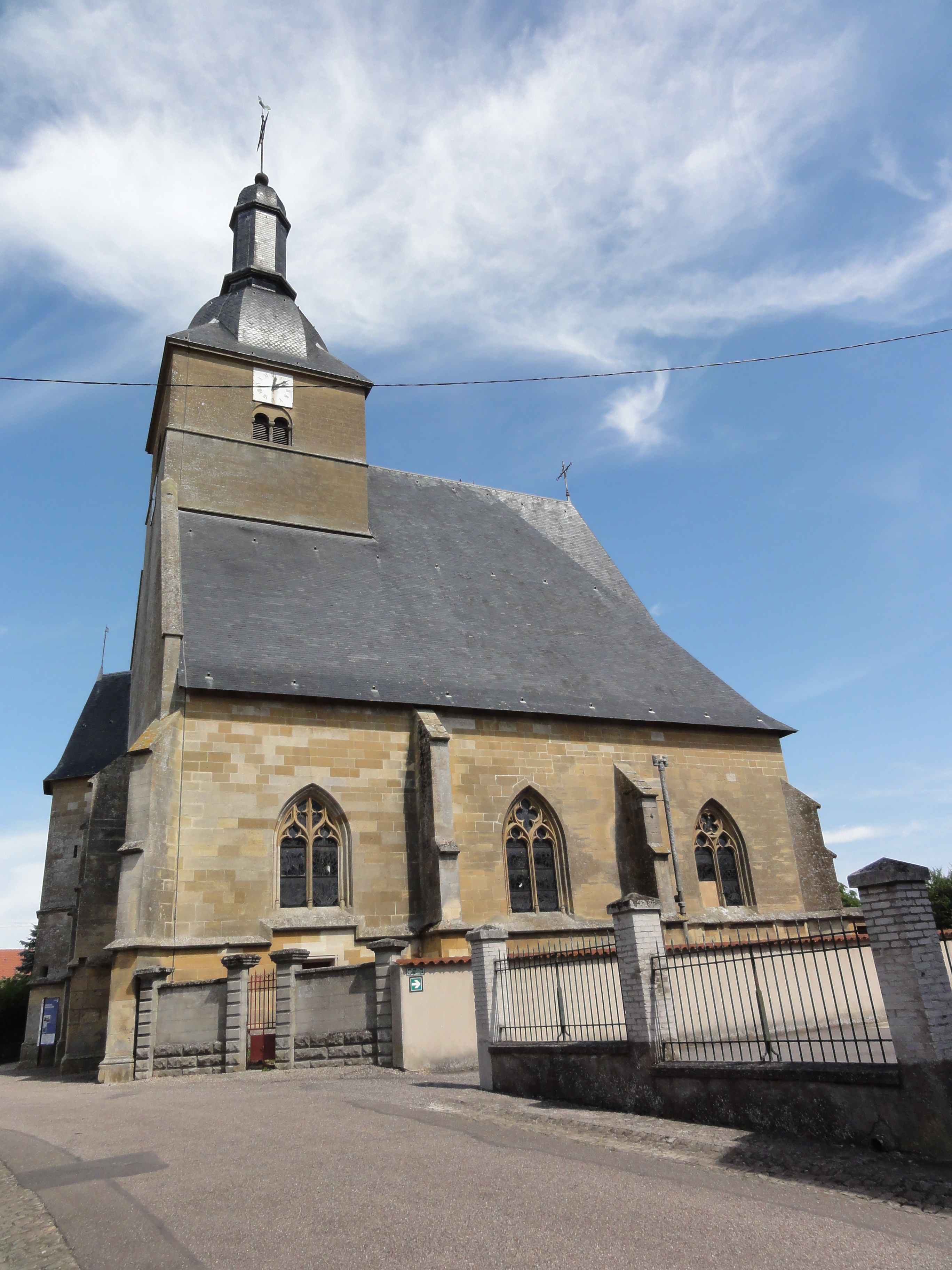 Senon (Meuse) église